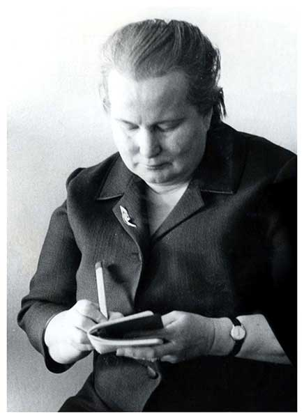 Photograph of the Finnish writer Rauni Kivilinna (1912–1993).